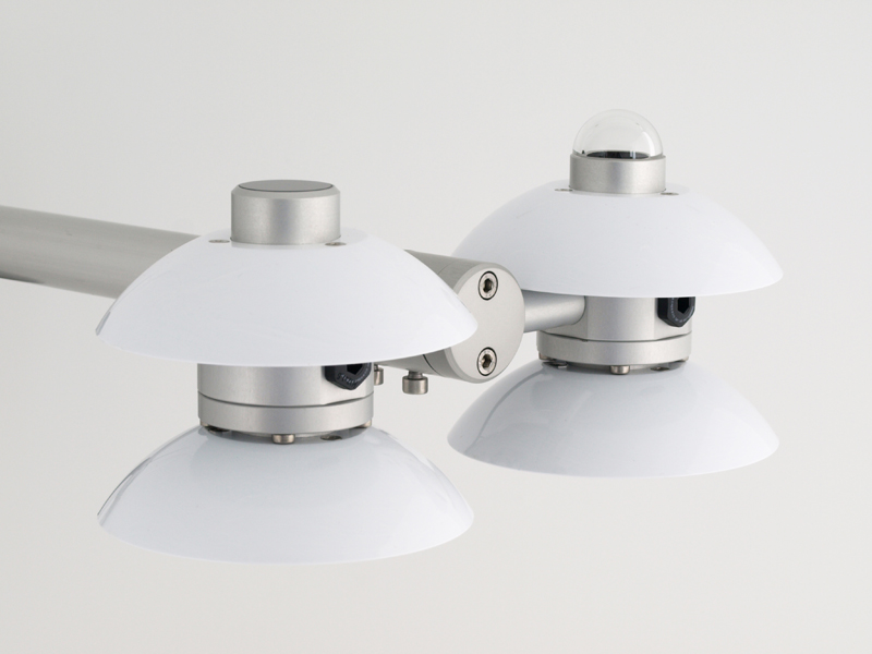 NR01 is a 4-component net-radiation sensor that is used for scientific-grade energy balance studies. The instrument has separate measurements of solar (Short Wave or SW) and Far Infra-Red (Long Wave or LW) radiation. Major improvements relative to comparable instruments include weight (reduced), solar offsets in the LW signal (reduced), ease of leveling (high, because levelling assembly is included).